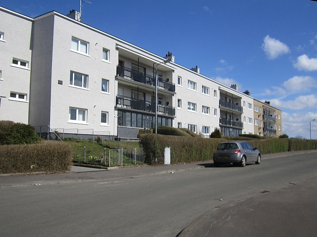 Netherplace Road